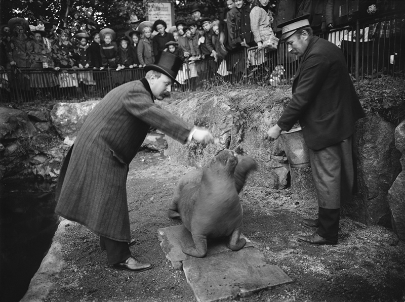 Walrus at Skansen on the island Djurgården, Stockholm, fed by keepers and gentleman in an overcoat and top hat (Alarik Behm).